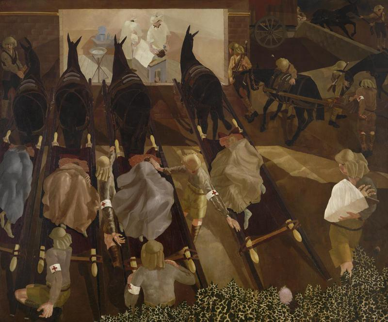 A dressing station seen from above. Four travoys pulled by mules wait outside, each holds a wounded shoulder, covered in a blanket, and attended by medical orderlies.The background is a well lit operating theatre, where surgeons can be seen at work.To the right is another mule, to the lower right is a man with his arm in a sling walking away.